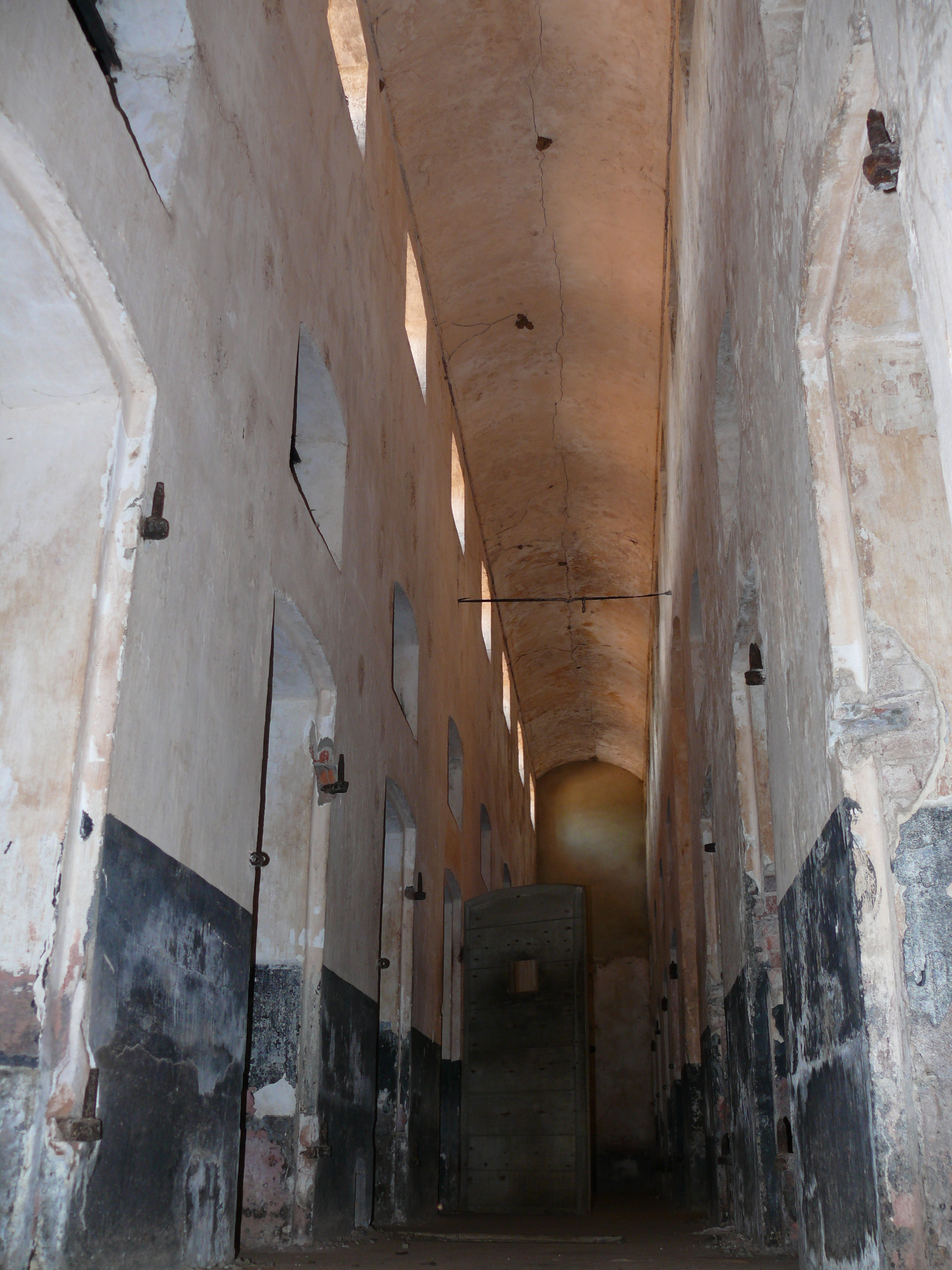 Hallway of the cellblock building. Royale Island, French Guiana. The other end of the hallway can be seen in Image:Bagne royale cellules couloir.jpg.